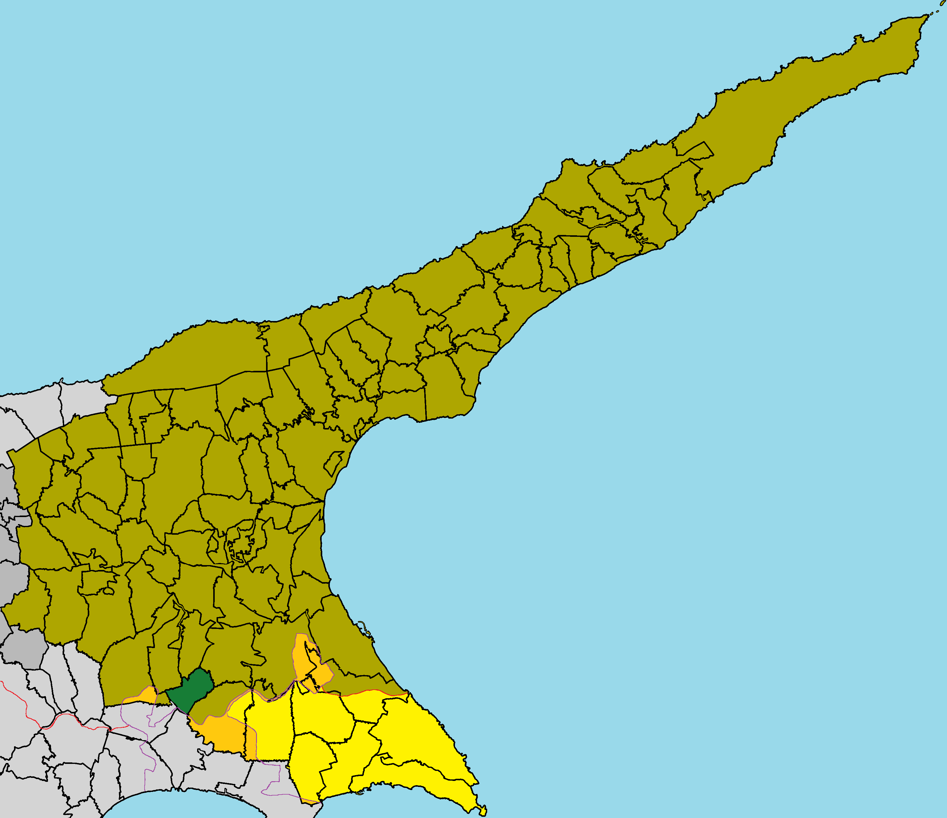 Makrasyka in Famagusta District (de jure).